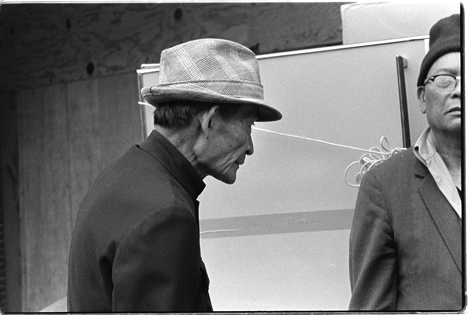 Elderly tenants who were evicted from the International Hotel in San Francisco during the dawn hours of August 4, 1977 wander in front of the hotel at 848 Kearny Street. Photo by Nancy Wong